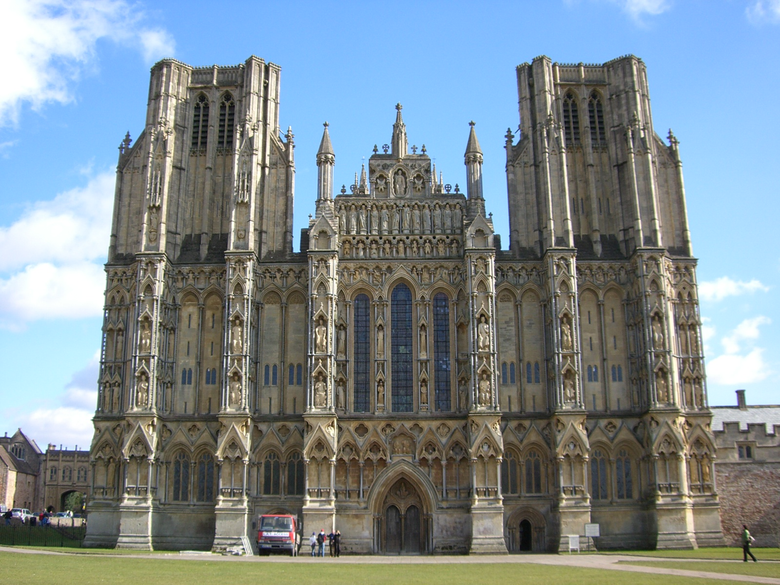 The Wells Cathedral in South England